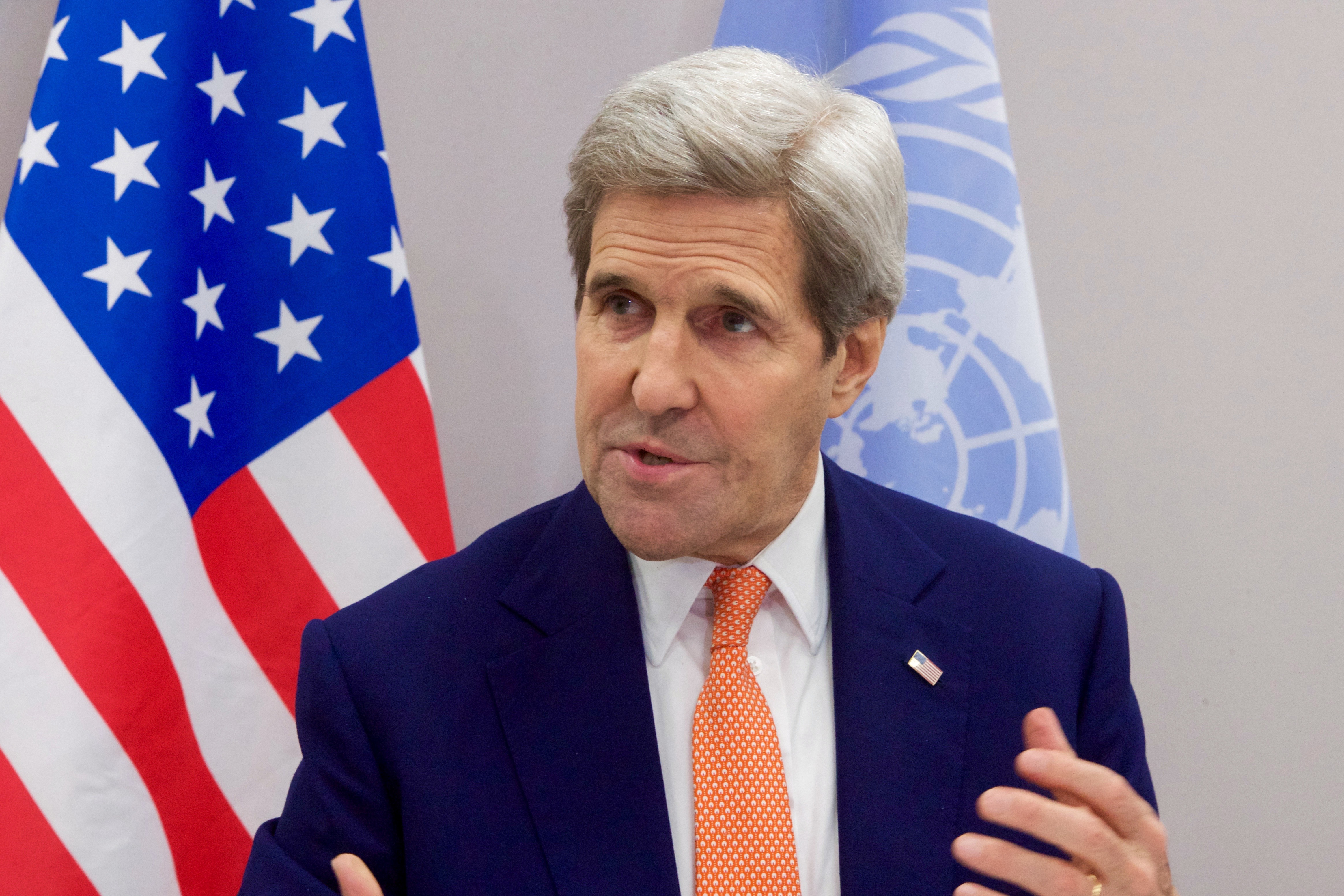 U.S. Secretary of State John Kerry addresses a group of reporters on December 12, 2015, after delegates to the COP21 climate change conference approved a sweeping environmental agreement during a meeting at LeBourget Airport in Paris, France. [State Department photo/ Public Domain]